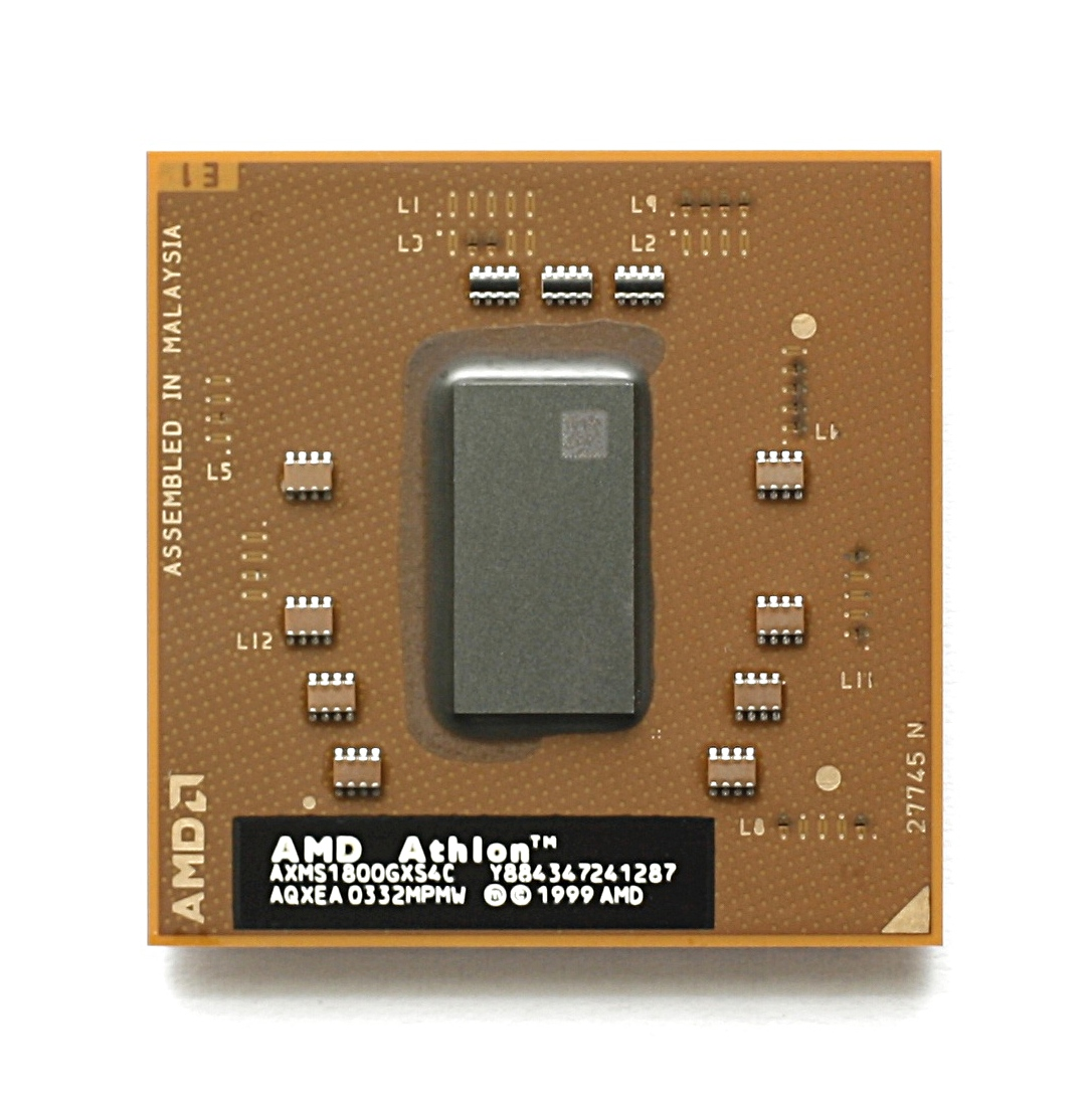 CPU AMD Mobile Athlon XP Barton Core